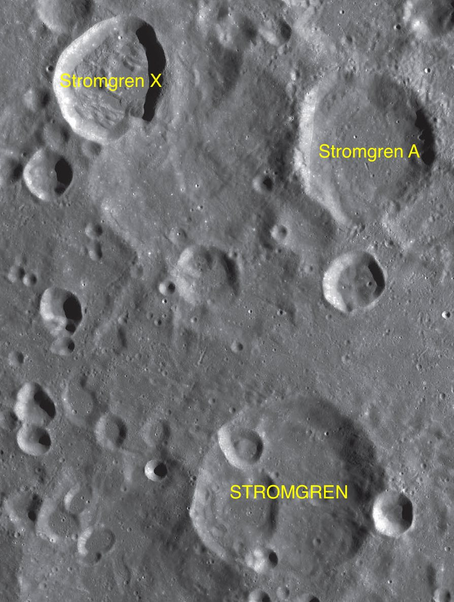 Part of the chart LAC-106 used for the presentation.